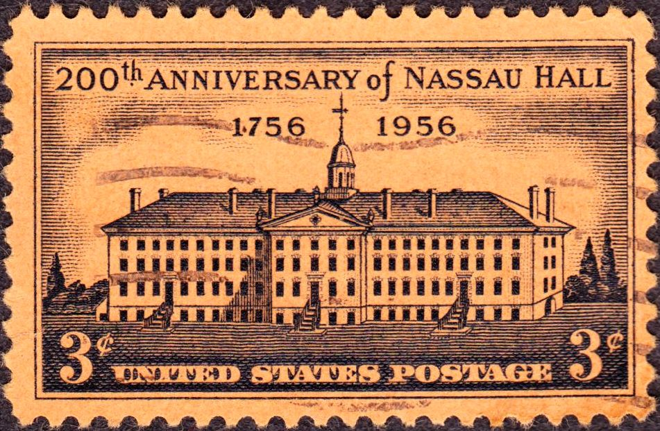 United States 1956 3 cent Nassau Hall, Princeton, NJ